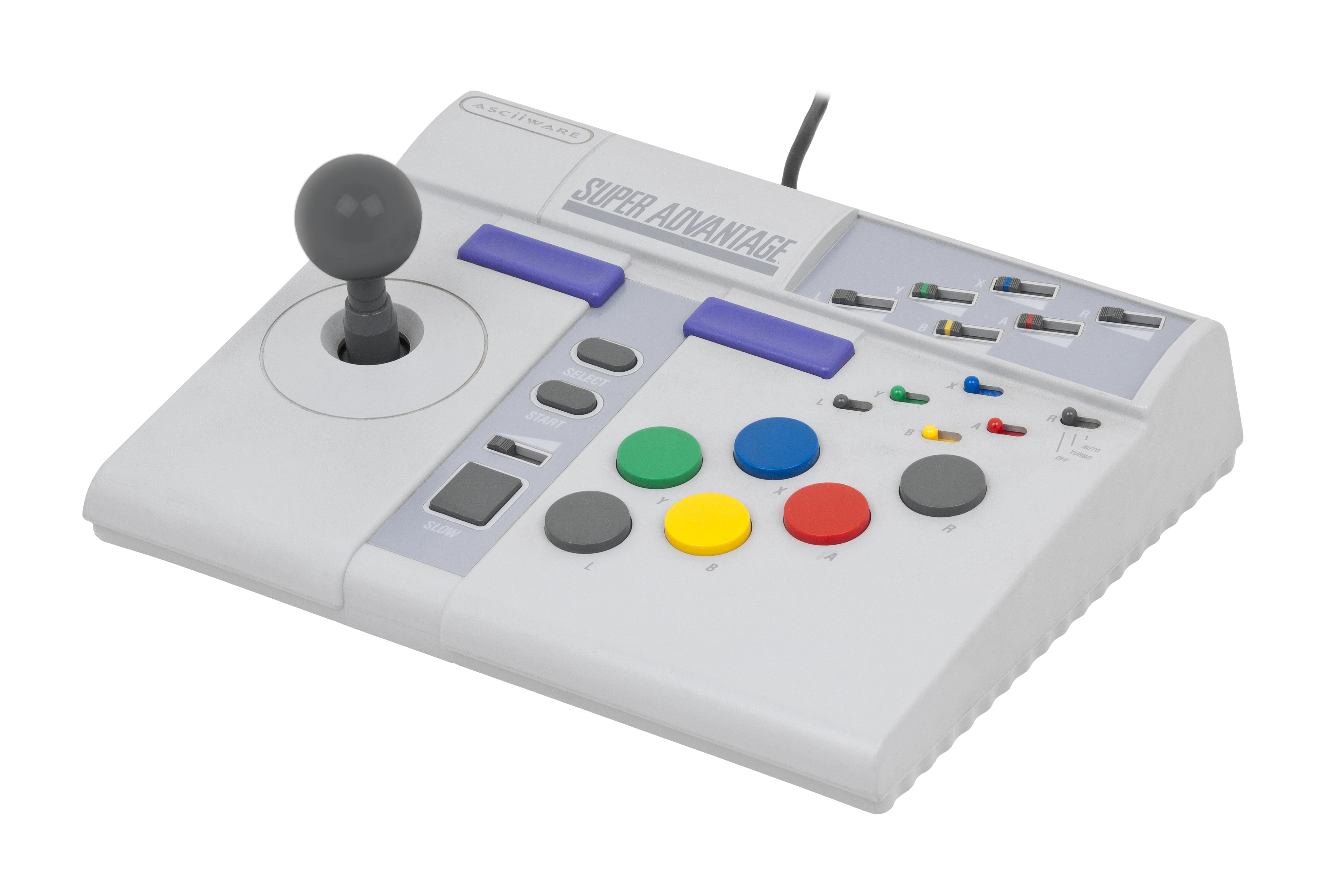 The Super Advantage controller for the Super Nintendo by Asciiware. You can see that this is pretty dirty, since I didn't do a clean up on it.